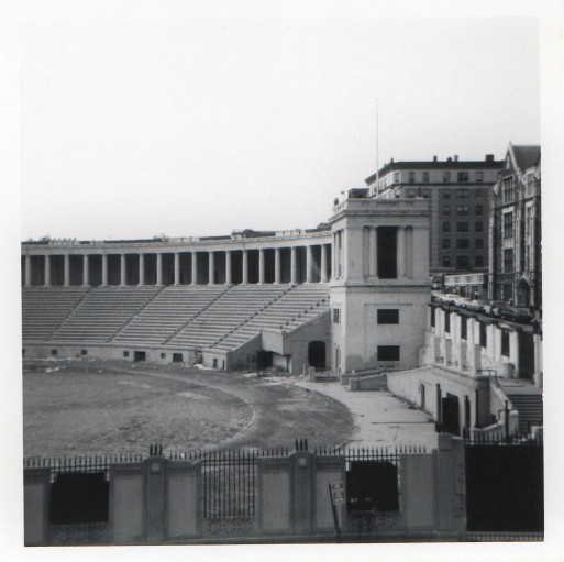 I took this photo is September 1973, just days before the demolition of Lewisohn Stadium began. The North Academic Center stands of the site today.